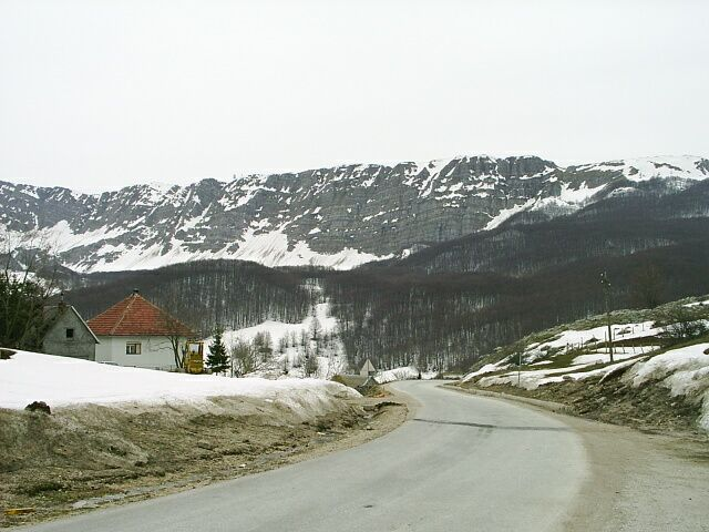 Čemerno pass in Bosnia and Herzegovina